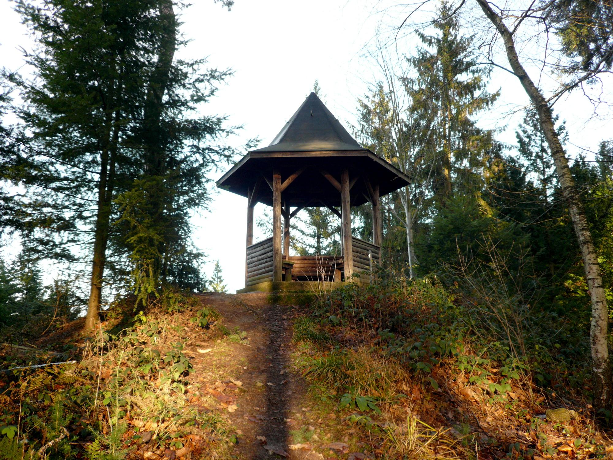 Goldkopf, a mountain in Odenwald near Weinheim